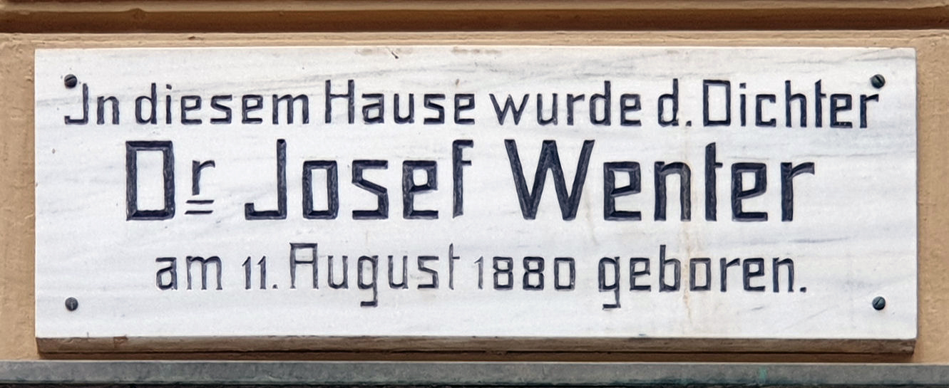 Memorial plaque, Josef Wenter, Piazza della Rena 17, Meran, Italy